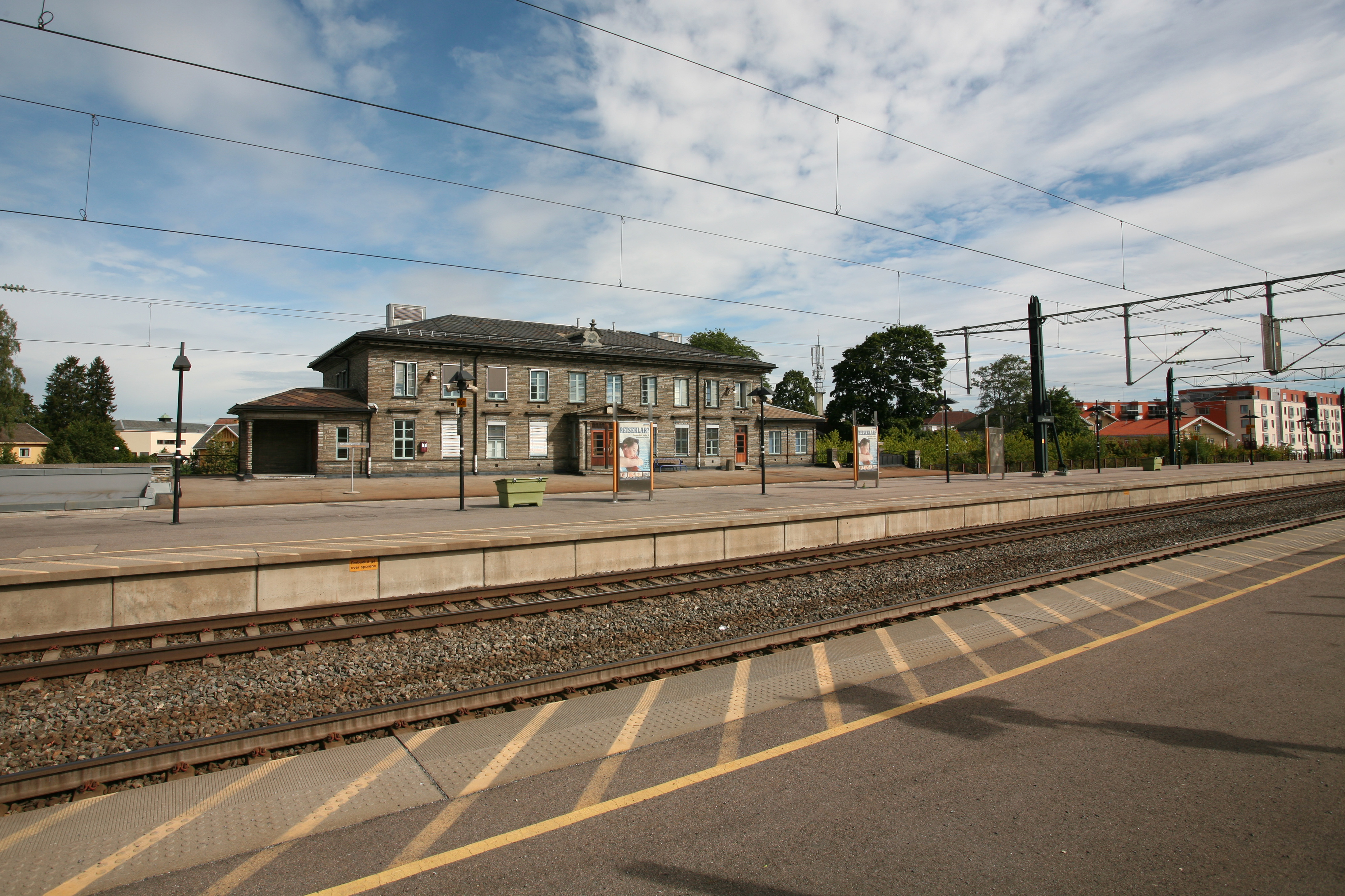 Picture of Lillestrøm Railway Station in year 2000 (Akershus - Norway)